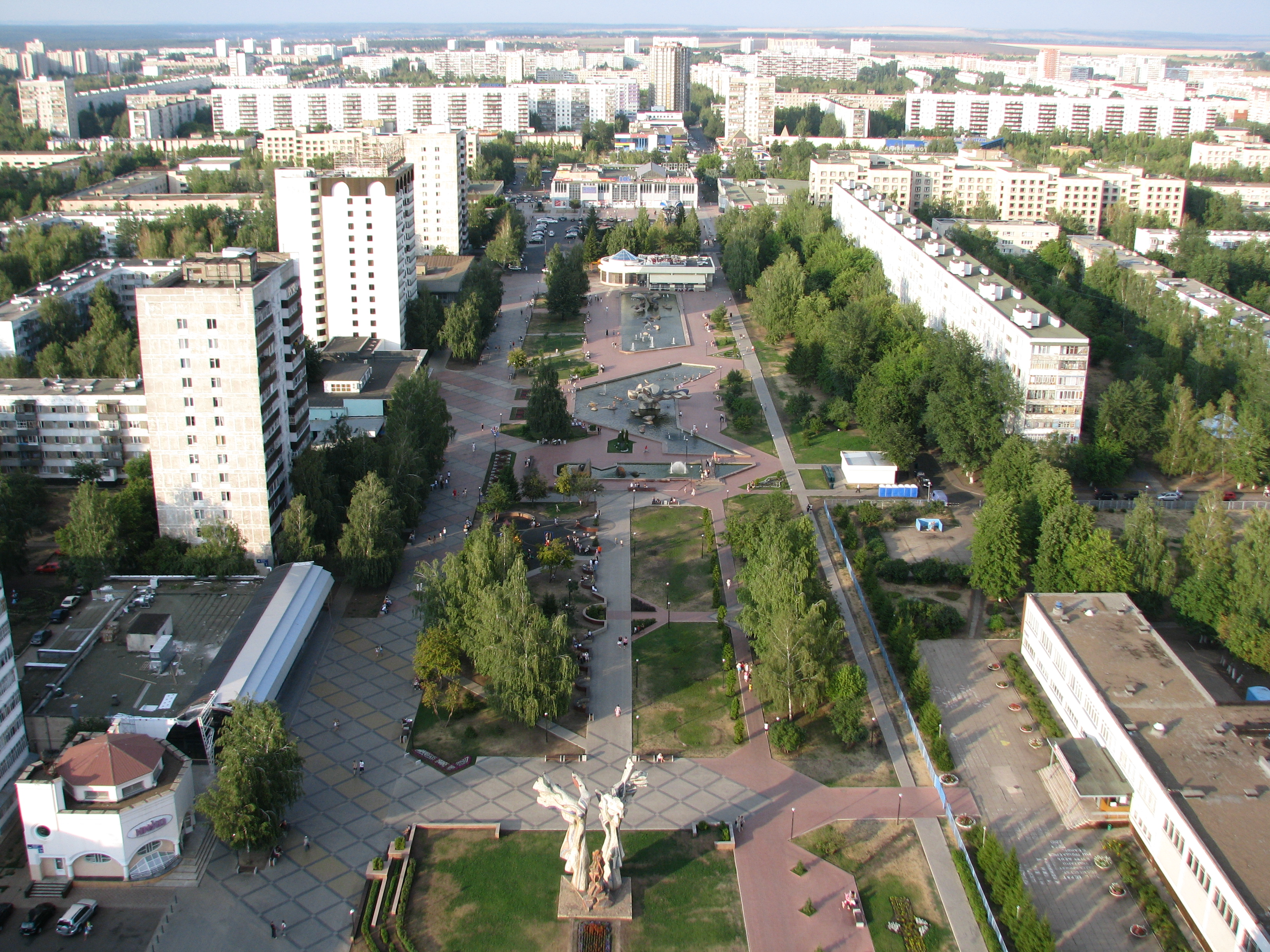 Boulevard of Enthusiasts (Naberezhnye Chelny, Tatarstan) Татарча/tatarça: Энтузиастлар бульвары (Чаллы, Татарстан)